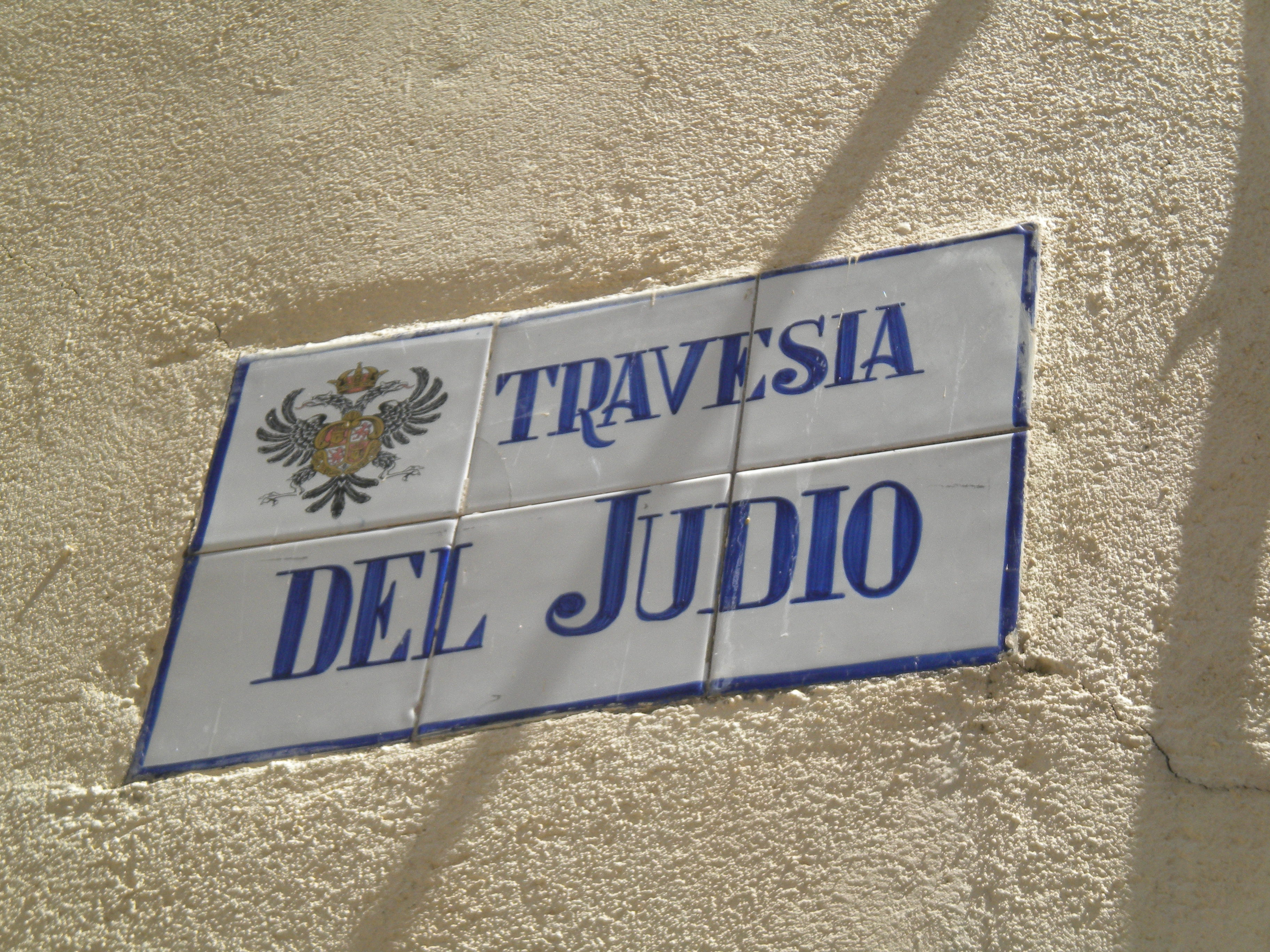 "Travesía del judío". Street tile sign of this alley in Toledo (Spain).